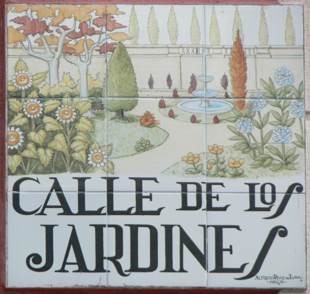 Sign of Calle de los Jardines (street, Centro district) in Madrid (Spain).